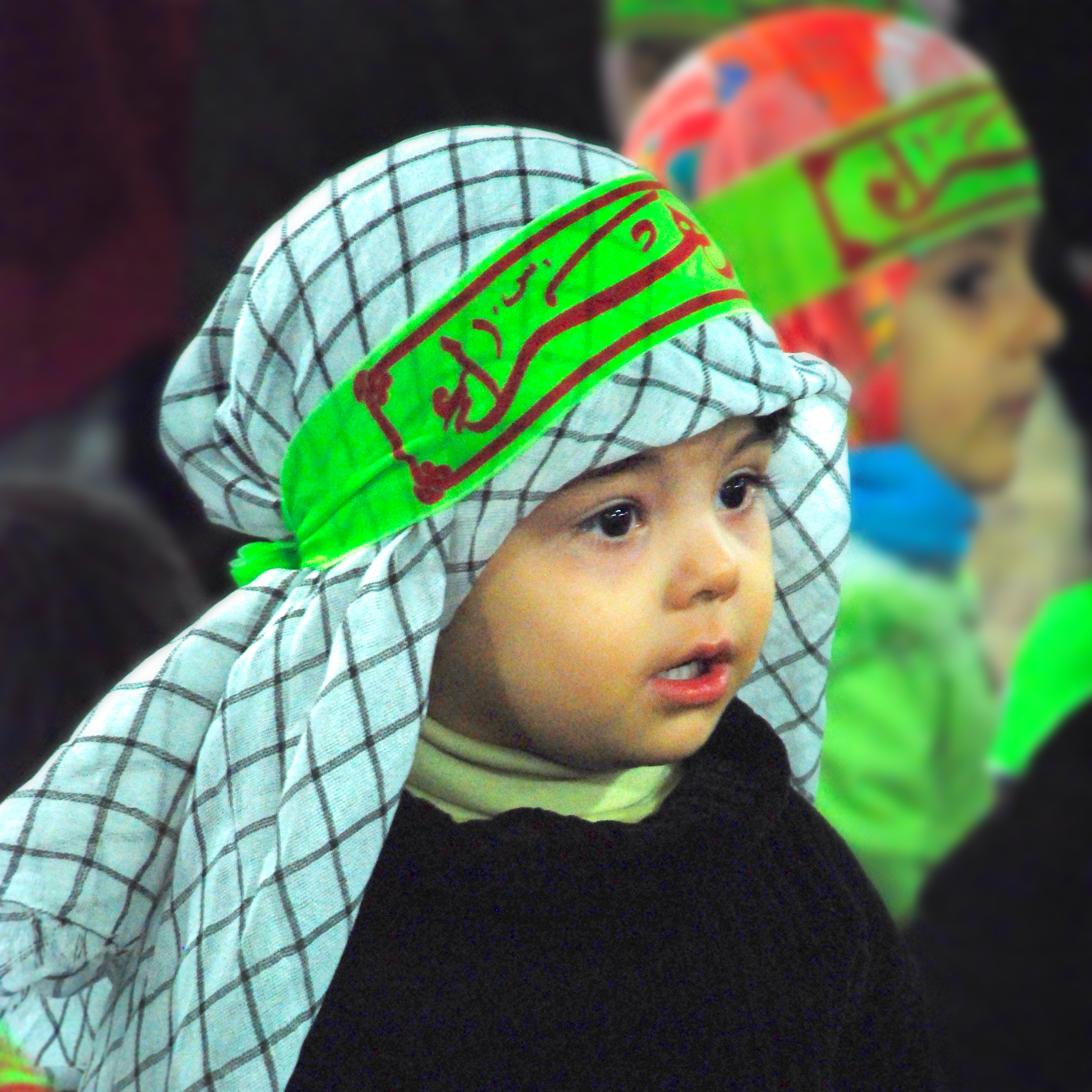 Martyrdom ceremony Roqieh - Photographer: Alireza Habibi